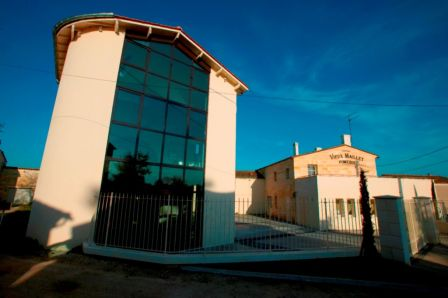 Chateau Vieux Maillet Pomerol